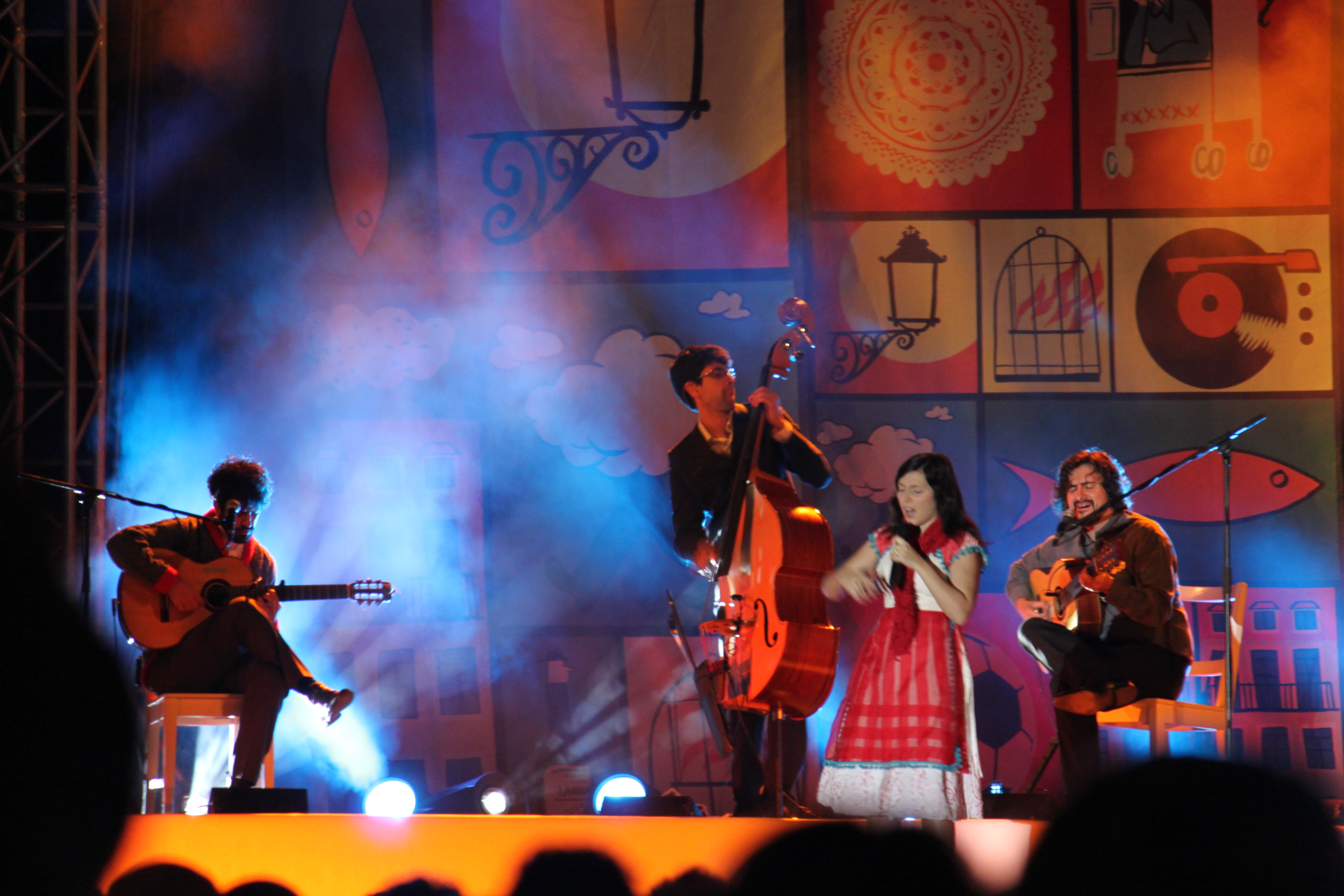 Deolinda live in Oeiras